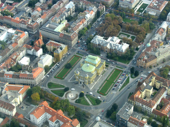 Croatian National Theatre in Zagreb, Croatia, from the air